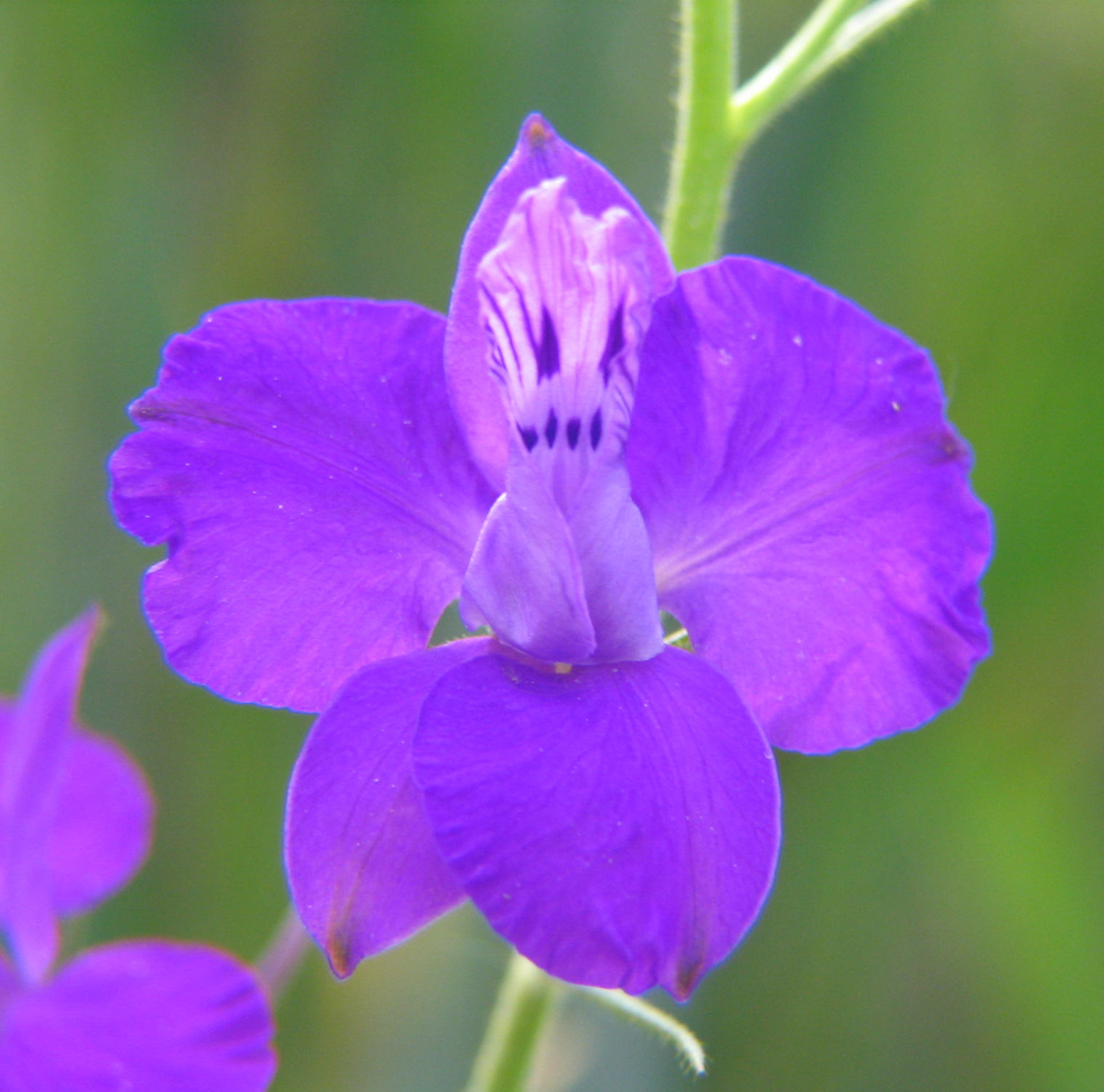 Consolida orientalis